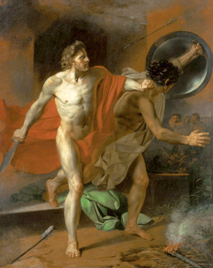 Death of Alcibiades, 1842 Yakov Fyodorovich Kapkov (1816-1854), The State Tretyakov Gallery, Moscow.